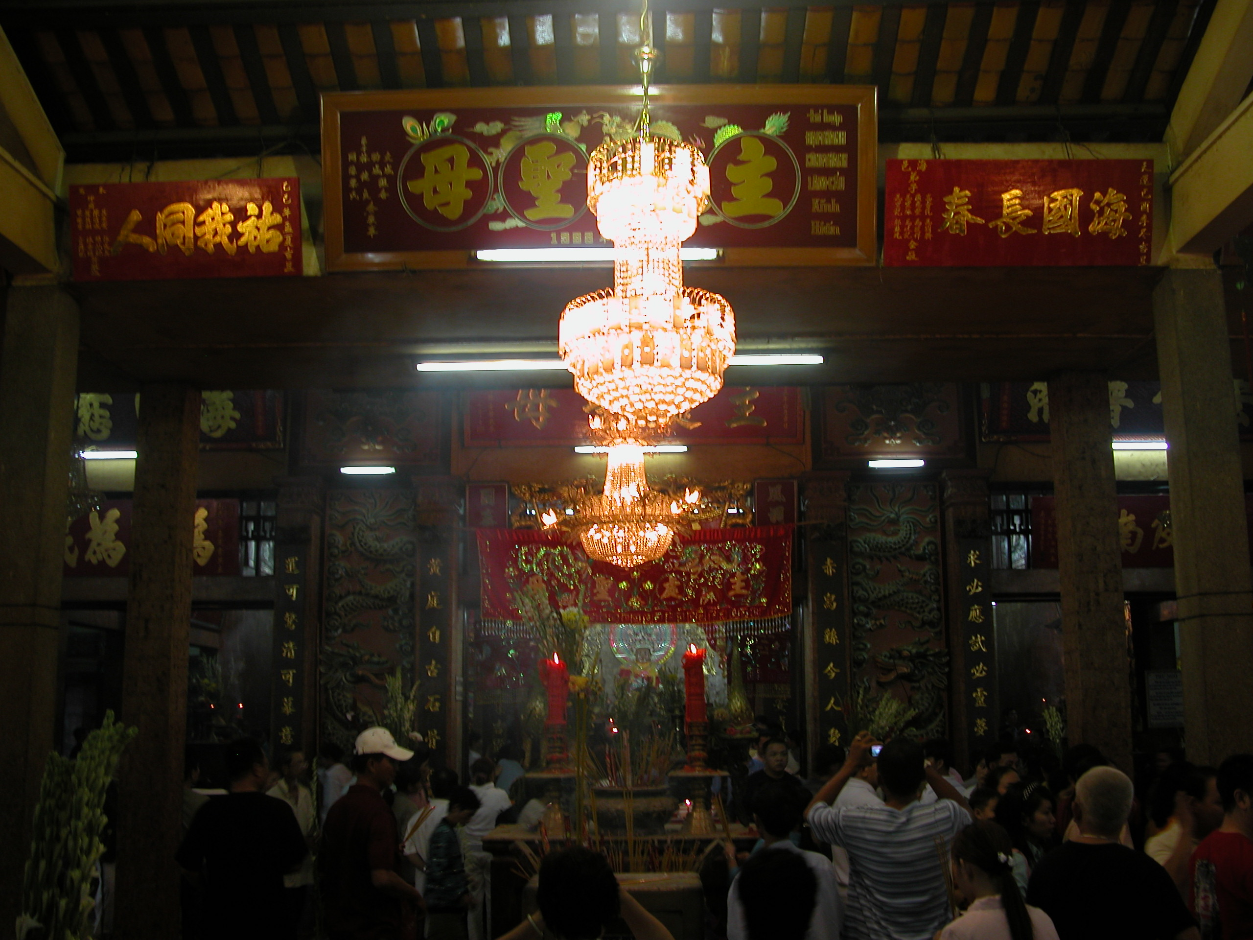 Inside the Holy Dame temple, Chau Doc city, An Giang province, Vietnam.